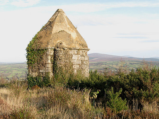 Mount Alto Tower Viewing tower, once part of the Woodstock Estate of Inistioge, located about 400m N of Mount Alto summit. Looking towards Brandon Hill on horizon.